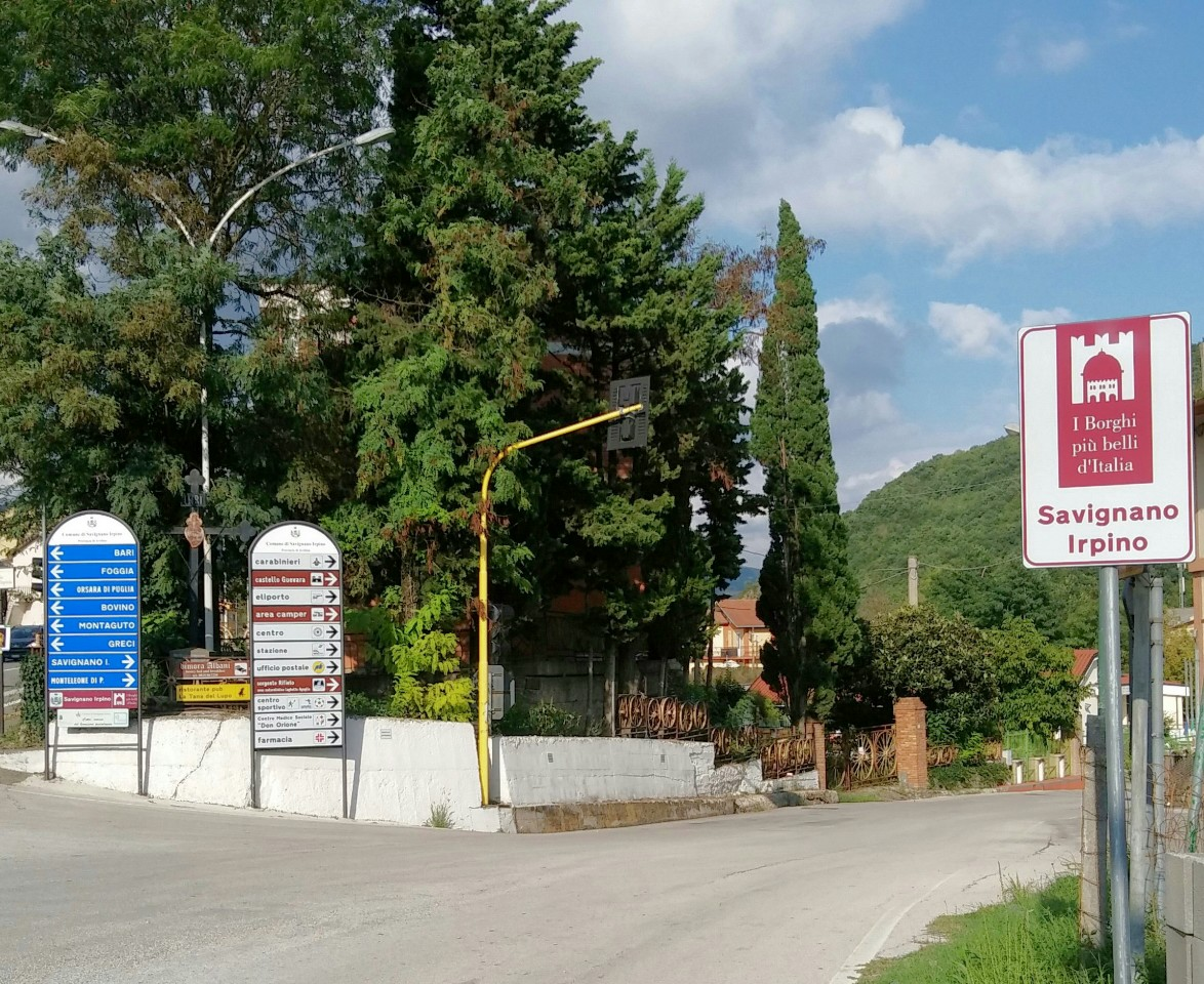 Savignano Scalo,.Southern Italy